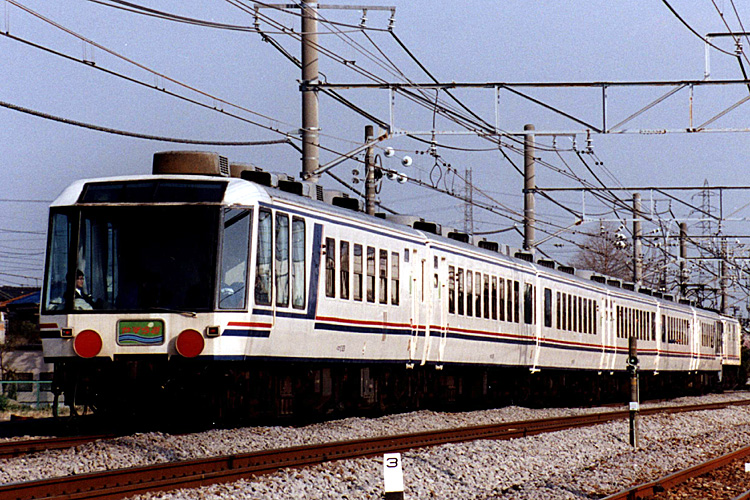 PC12 passenger car based resort train "Yasuragi". 12系お座敷客車｢やすらぎ｣。牽引機もこの車両と同様の塗装を纏ったEF60が用意されていた。